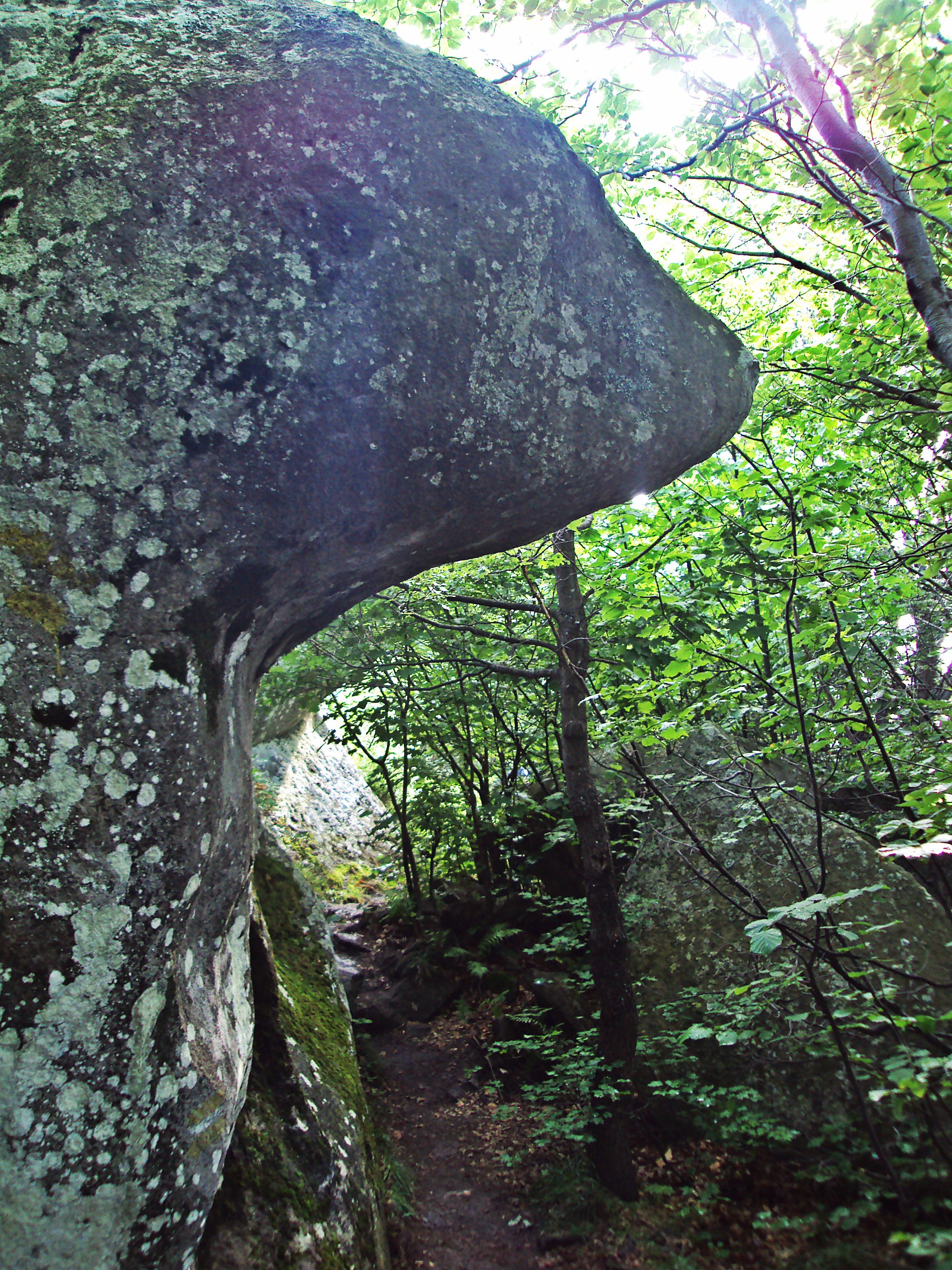 Sentinel Belintash Rodopi BG